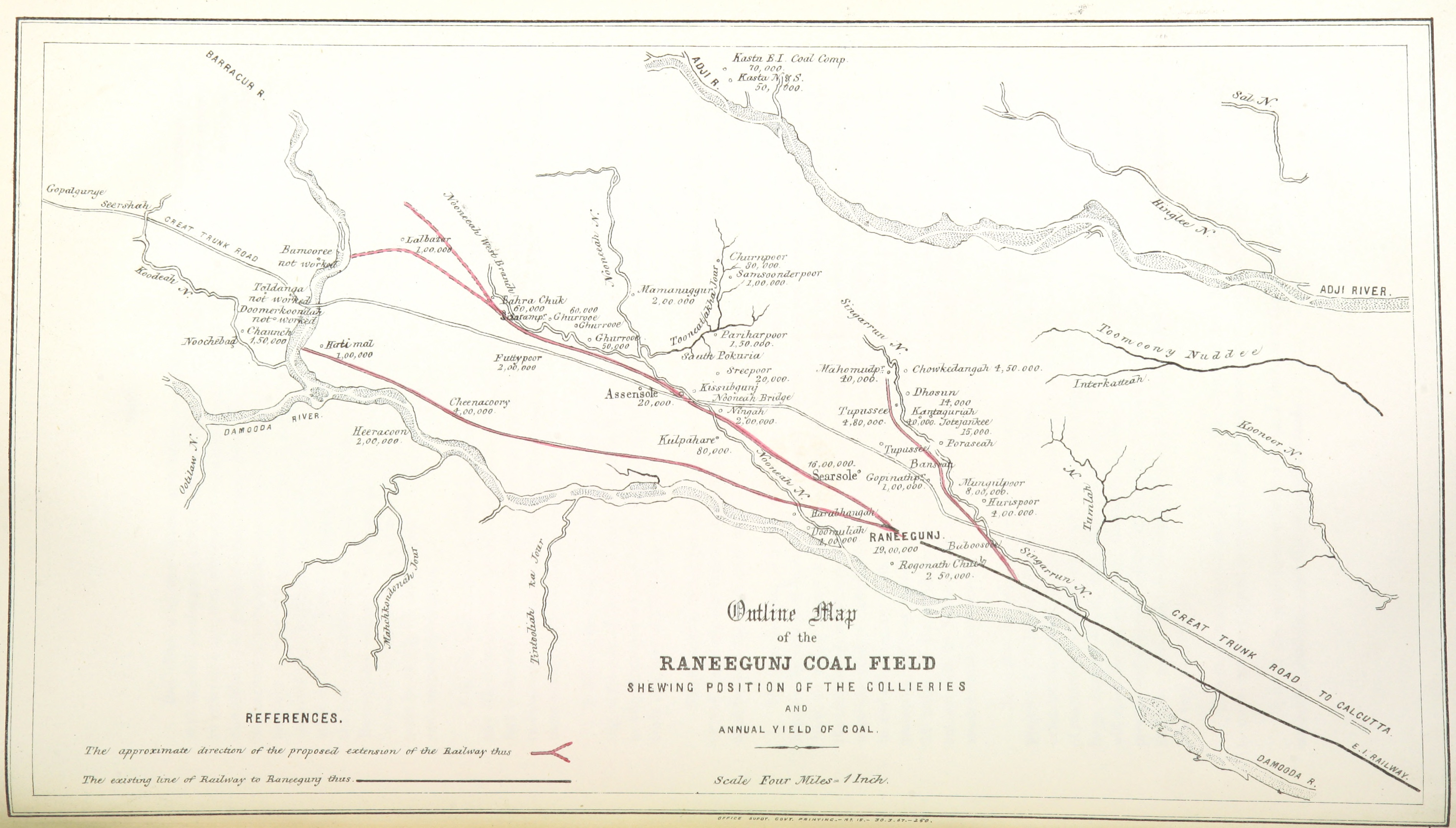 Image taken from: Title: "The “Coal Resources and Production of India” ... being a Return called for by ... the Secretary of State for India" Author: OLDHAM, Thomas - Superintendent of the Geological Survey of India Shelfmark: "British Library HMNTS 7105.h.4." Page: 71 Place of Publishing: Calcutta Date of Publishing: 1867 Issuance: monographic Identifier: 002702677 Explore: Find this item in the British Library catalogue, 'Explore'. Open the page in the British Library's itemViewer (page image 71) Download the PDF for this book Image found on book scan 71 (NB not a pagenumber)Download the OCR-derived text for this volume: (plain text) or (json) Click here to see all the illustrations in this book and click here to browse other illustrations published in books in the same year. Order a higher quality version from here.